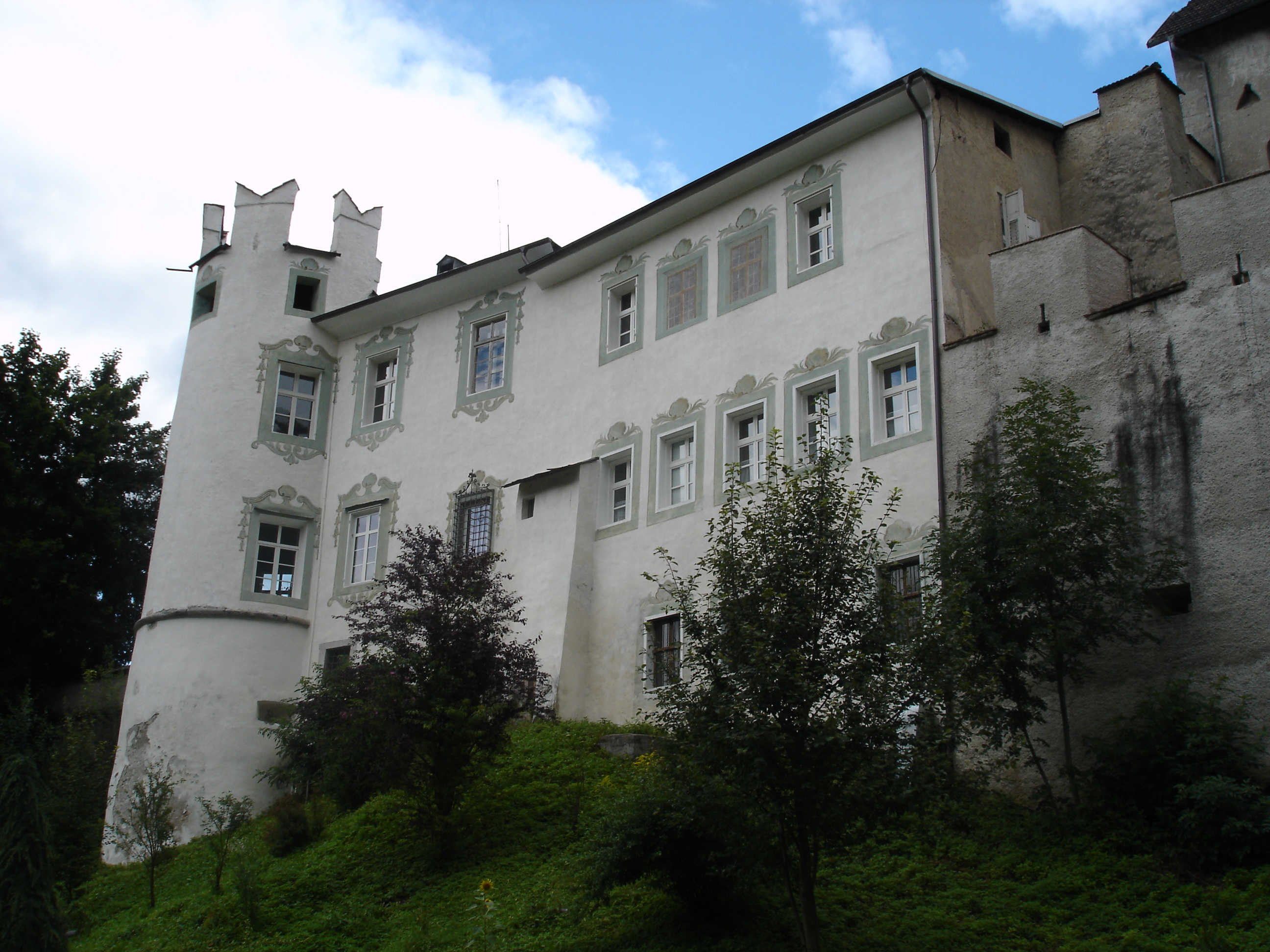 Ehrenburg Castle